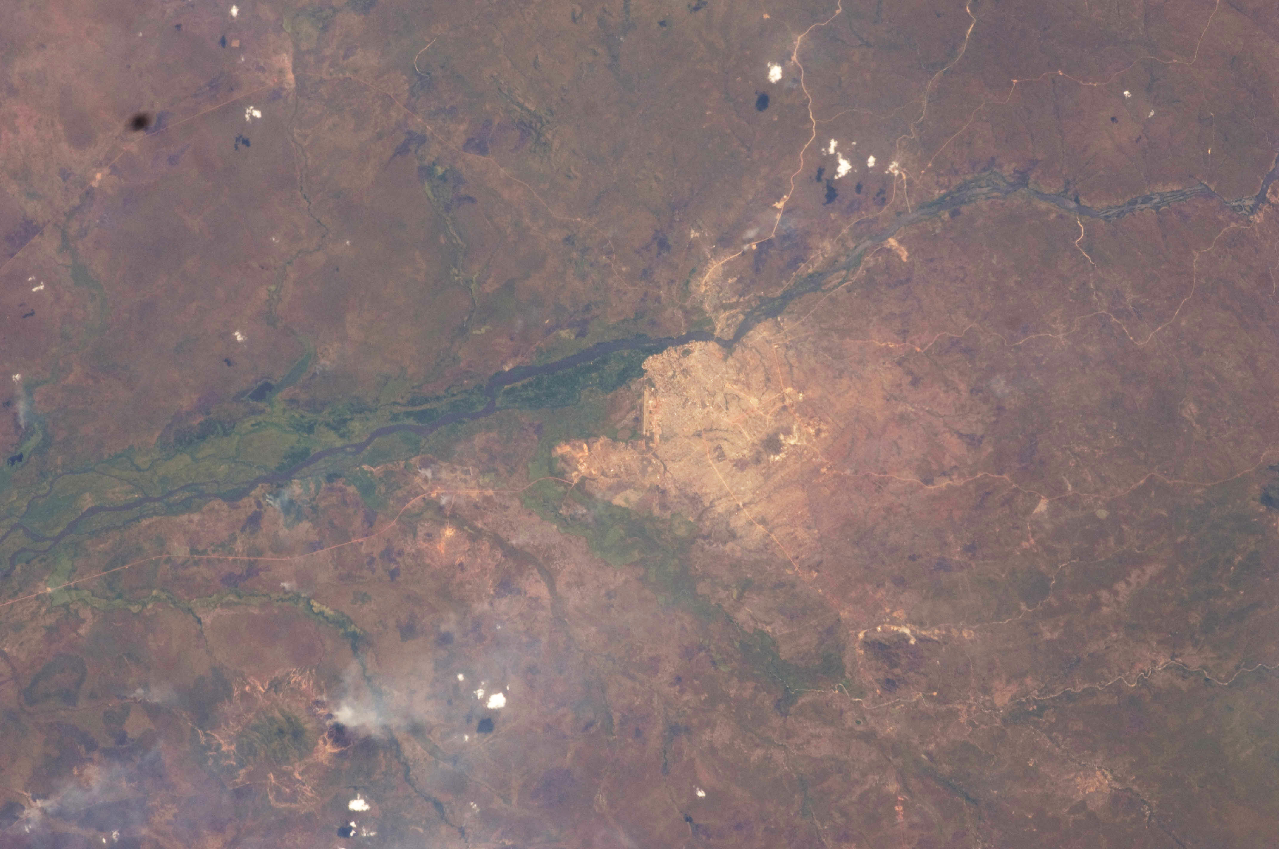 Juba, South Sudan – the world's newest capital city – is featured in this image photographed by an Expedition 30 crew member on the International Space Station. Almost one year ago, on July 9, 2011, the Republic of South Sudan became the newest nation in the world, six months after its declaration of independence from Sudan. Juba, a port city (center) on the White Nile, is the capital of the new nation (although the capital will be moved in the future to a more central location) and is one of the fastest growing cities in the world. Juba's population is uncertain, but is estimated to be roughly 350,000–400,000 having doubled in size since 2005, when a peace agreement was signed ending the civil war in Sudan. Both hopeful immigrants and returning residents have created the population surge. The city hosts the Juba Game Reserve, a protected area of savannah and woodlands that is home to key bird species.